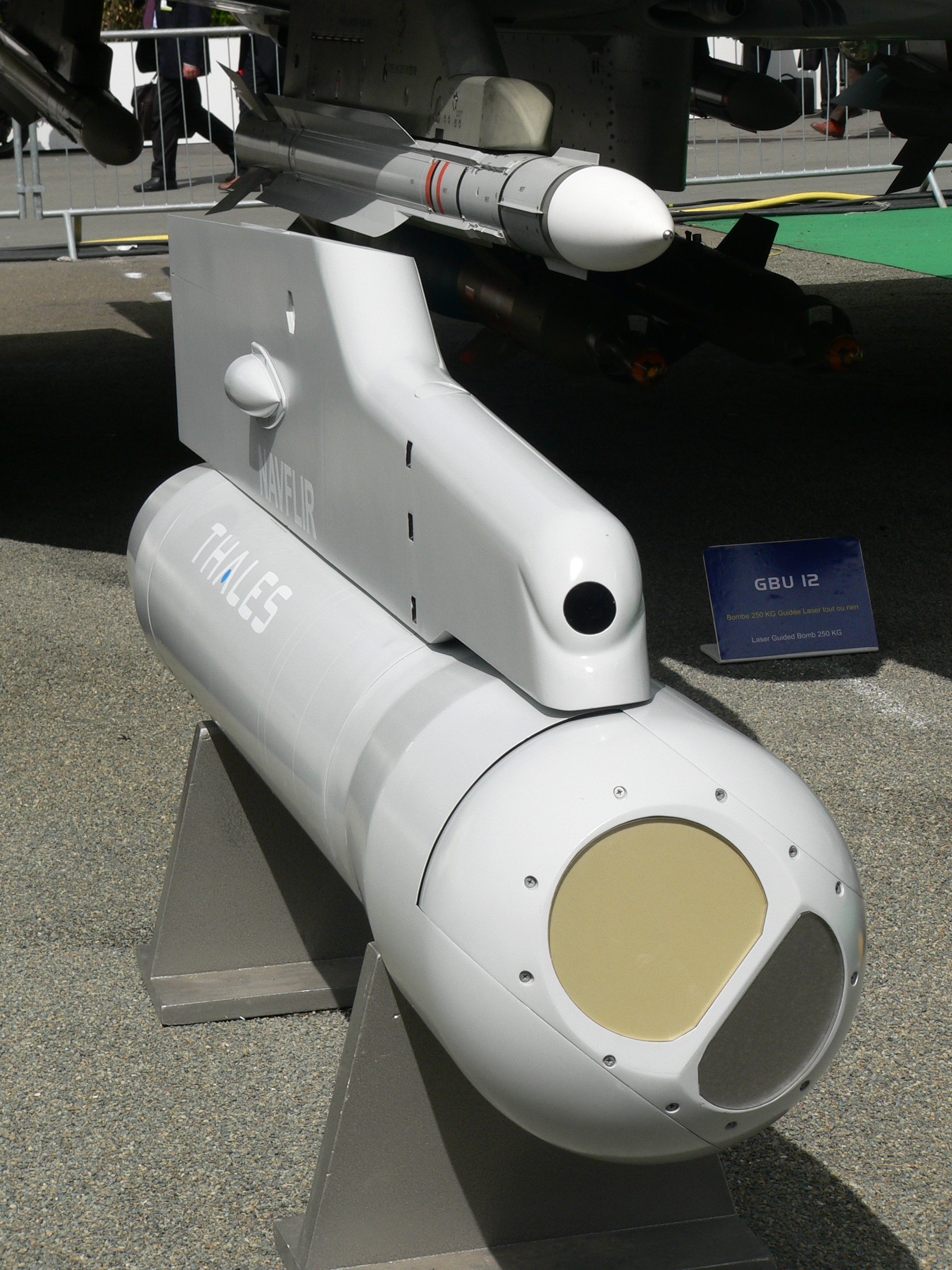 Thales NAVFLIR / DAMOCLES (forward-looking infrared day/night vision + target designator)